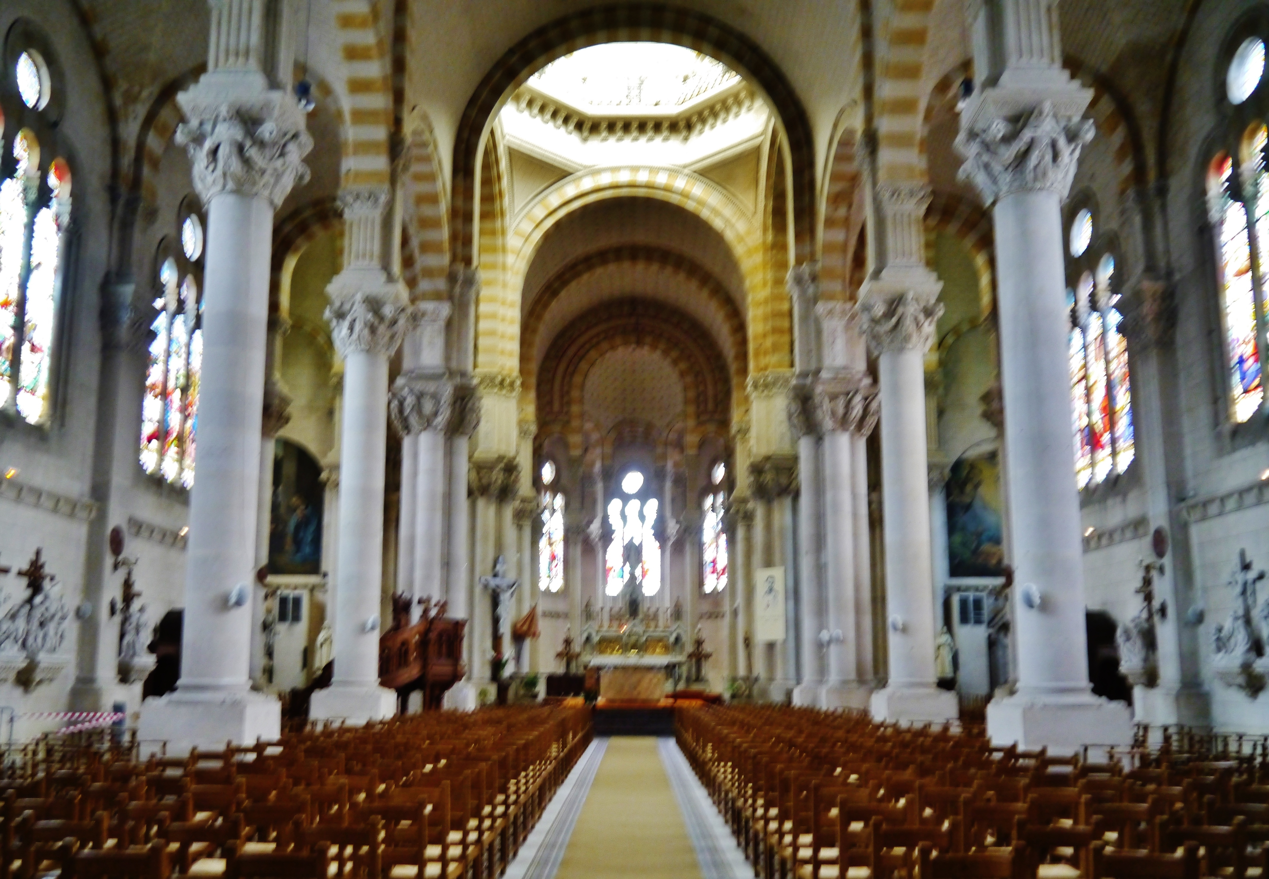 Nave of the Basilica of the Sacred Heart, Nancy, Département of Meurthe-et-Moselle, Region of Lorraine (now Grand East), France